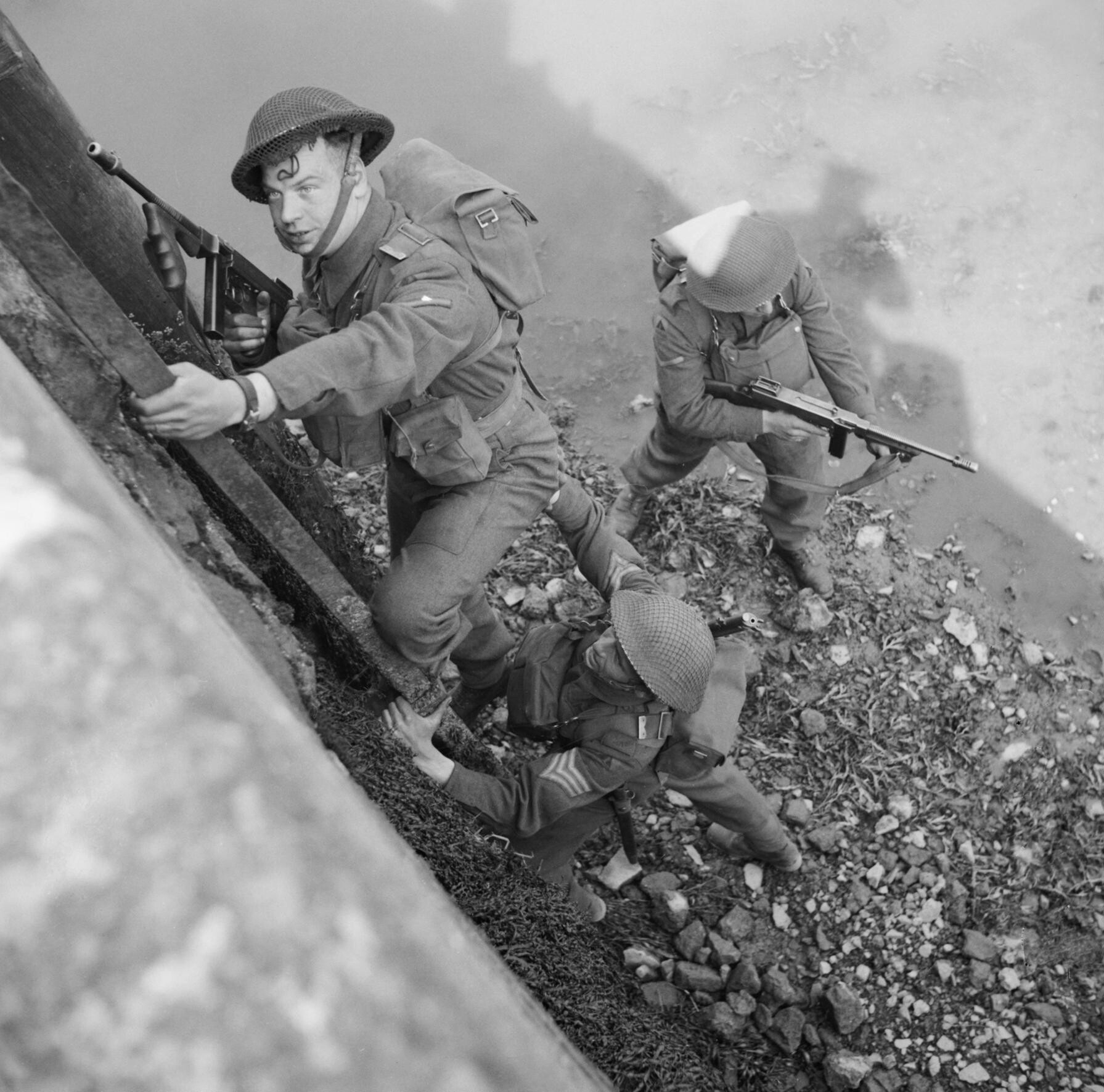 Men of the South Staffordshire Regiment climb up onto a harbour wall during an amphibious exercise in Northern Ireland , 24 April 1942. Men of the South Staffordshire Regiment armed with 'Tommy guns' climb up onto a harbour wall during an amphibious exercise in Northern Ireland , 24 April 1942.